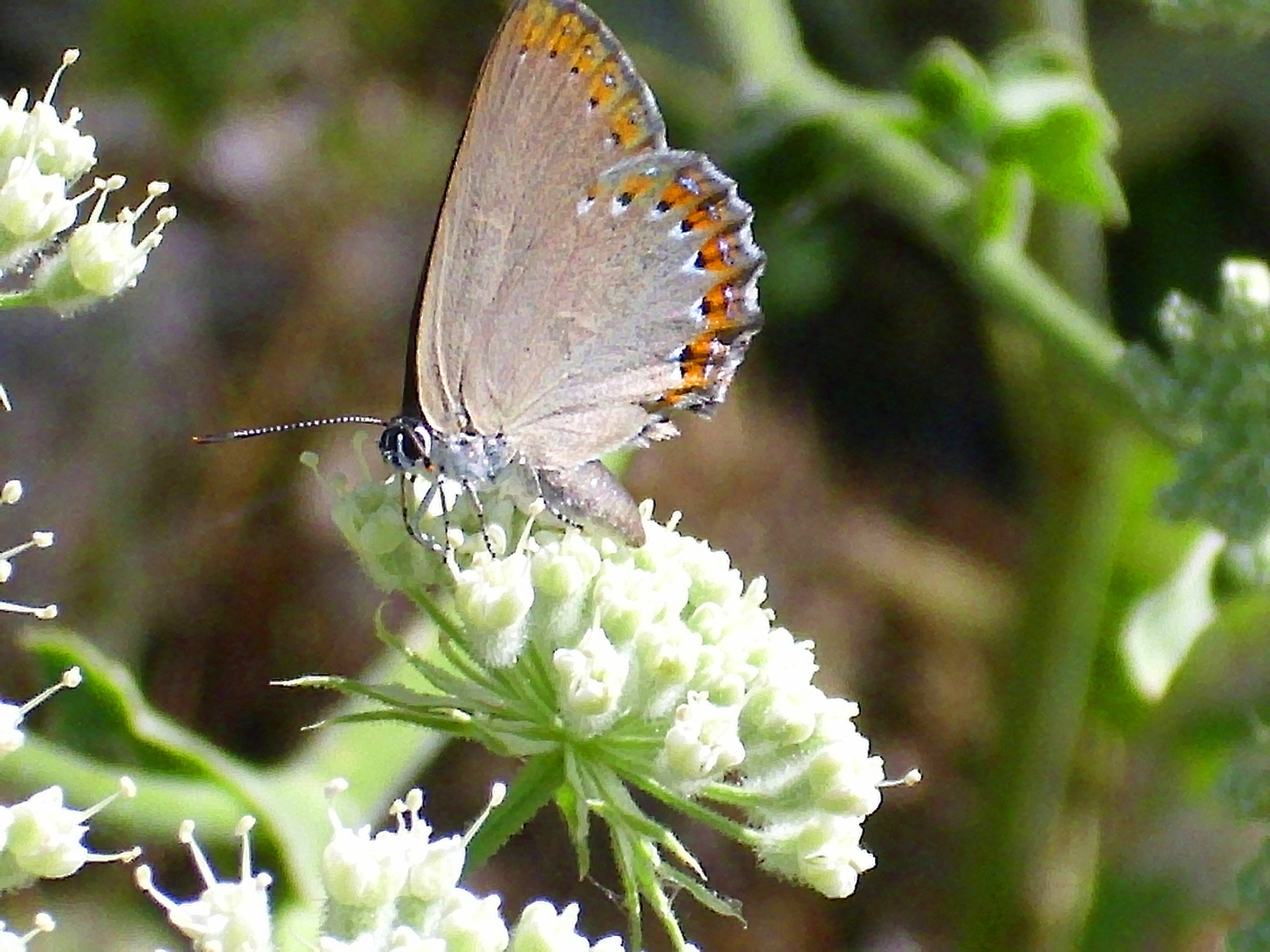 Magydaris panacifolia and polinator, Sierra Madrona, Spain